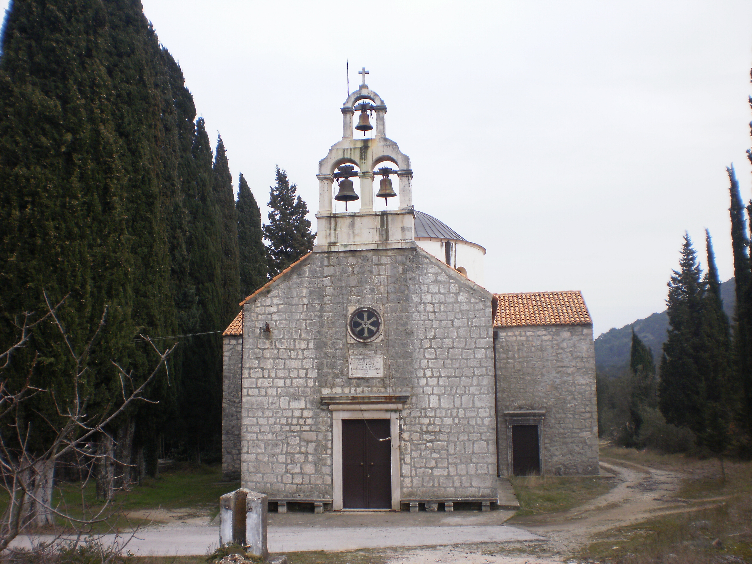 St. Cosmas and St. Damian church in Donja Vručica